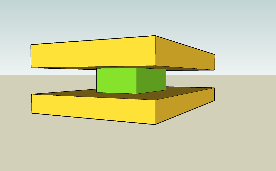 Room and pillar